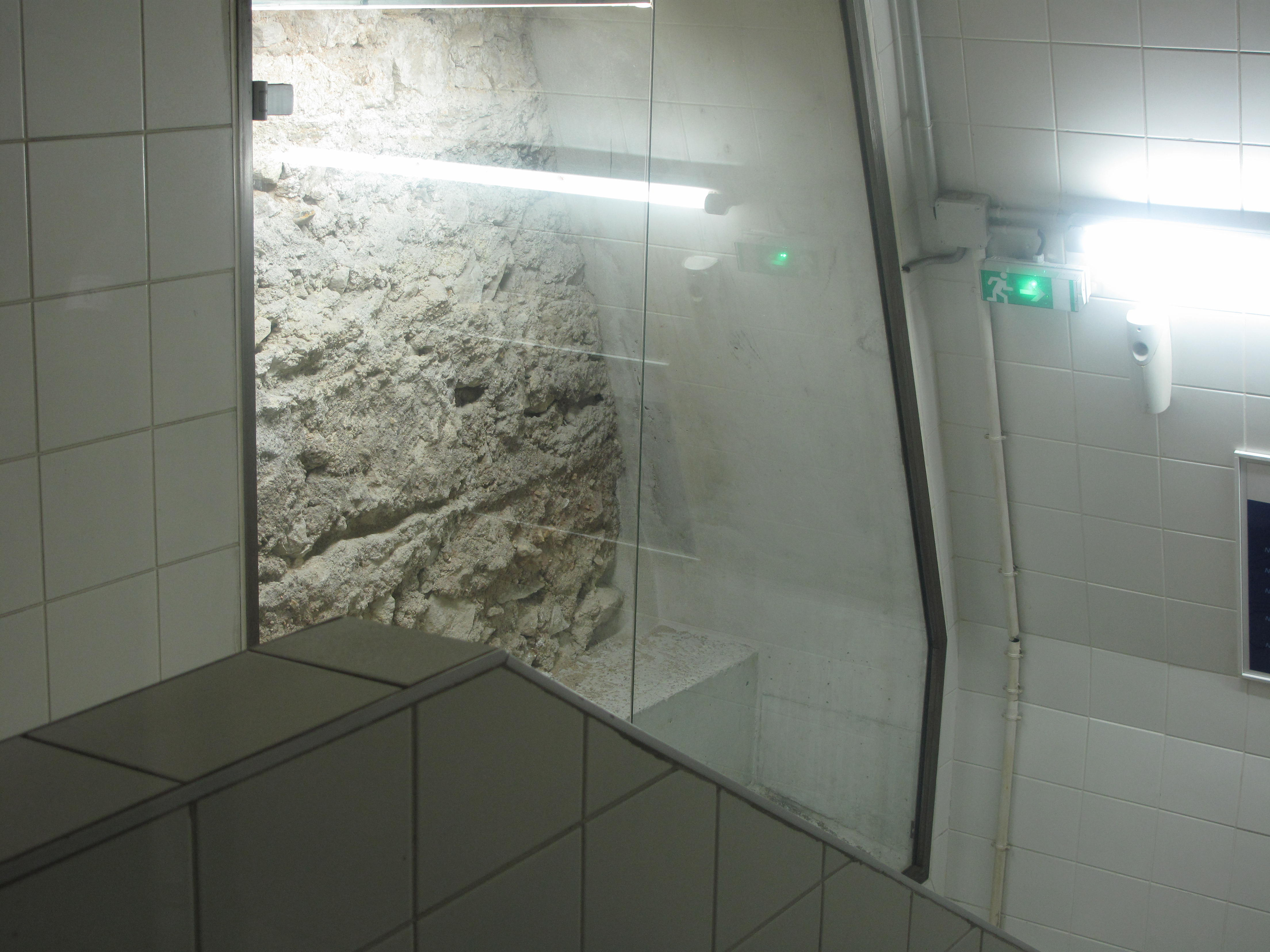 Wall of the roman forum of Lutetia, in a parking entrance at the 61 Boulevard Saint-Michel, Paris 5th arr.